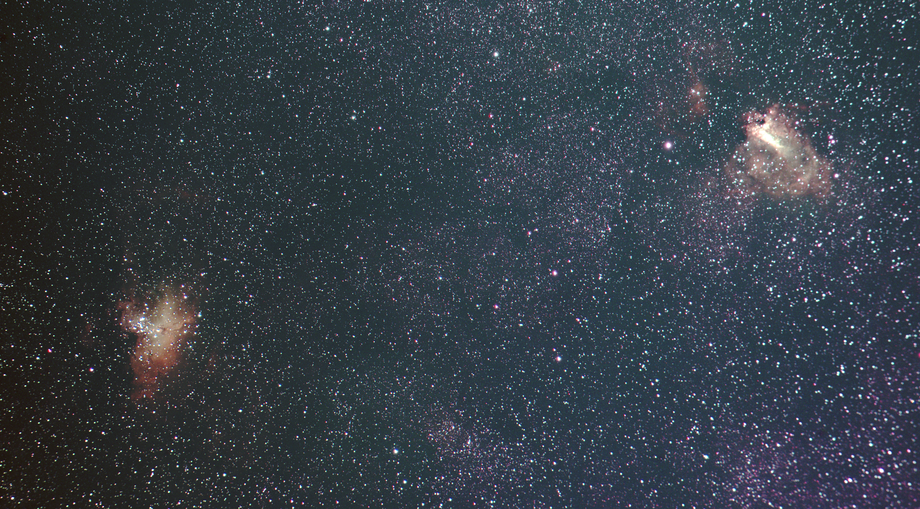 An image of the companion nebulas M16 and M17